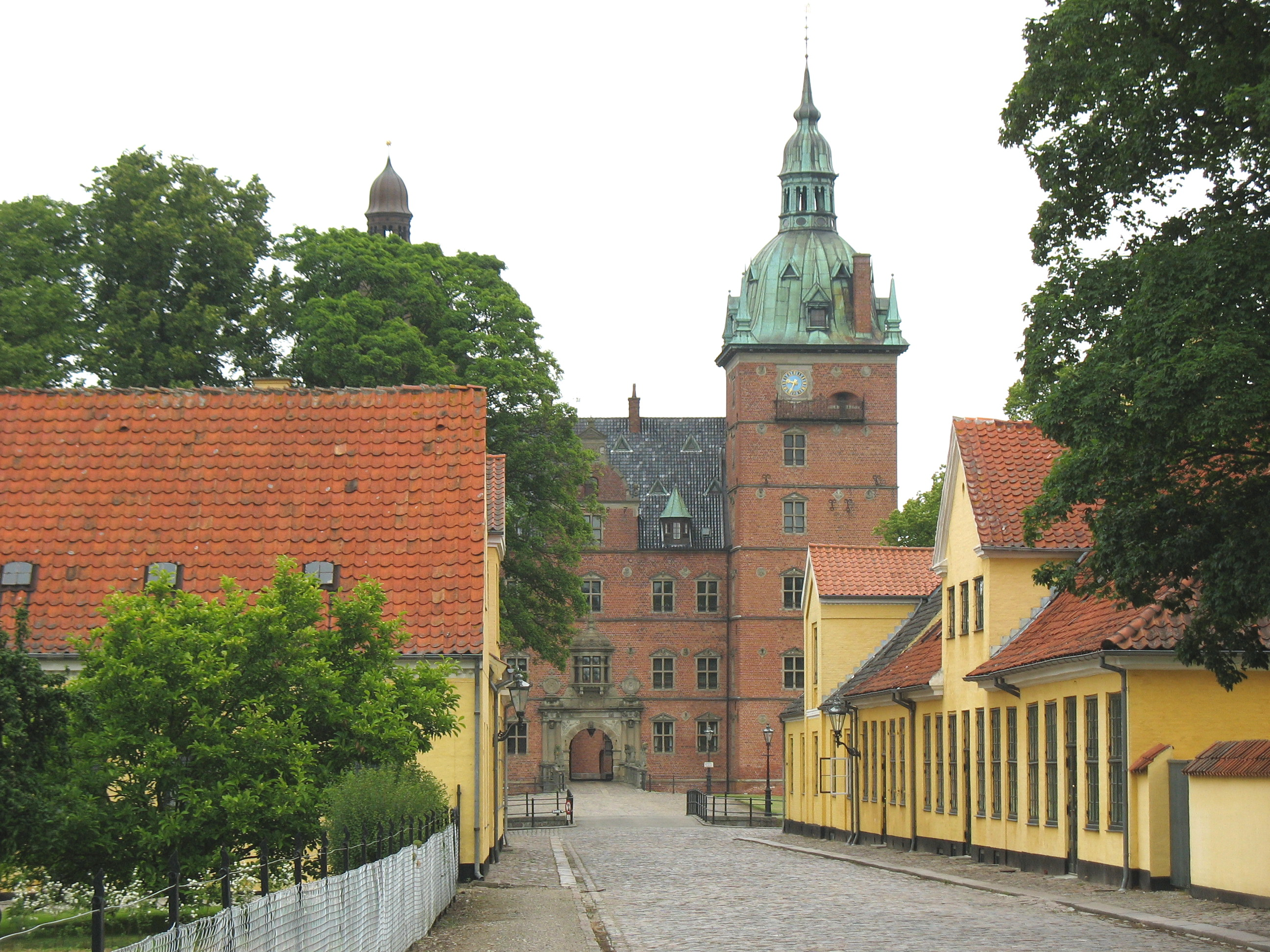 The old castle street near the castle "Vallø Slot" located in South Zealand, east Denmark.